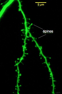 Dendritic branches of an eGFP transfected pyramidal neuron